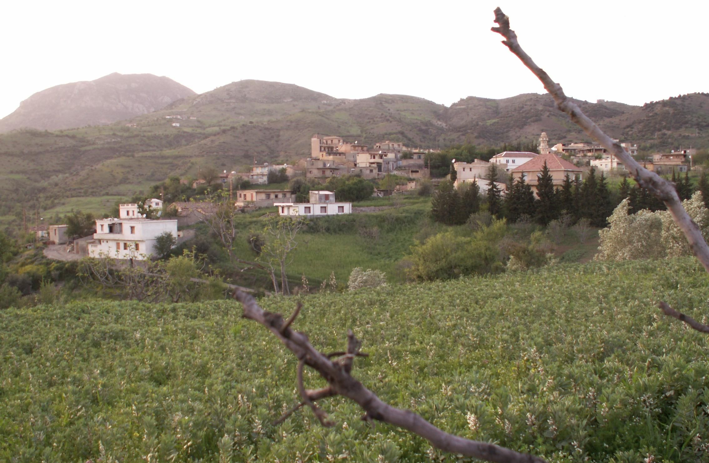 A small Algerian village called Tiwal in Kabylie region.